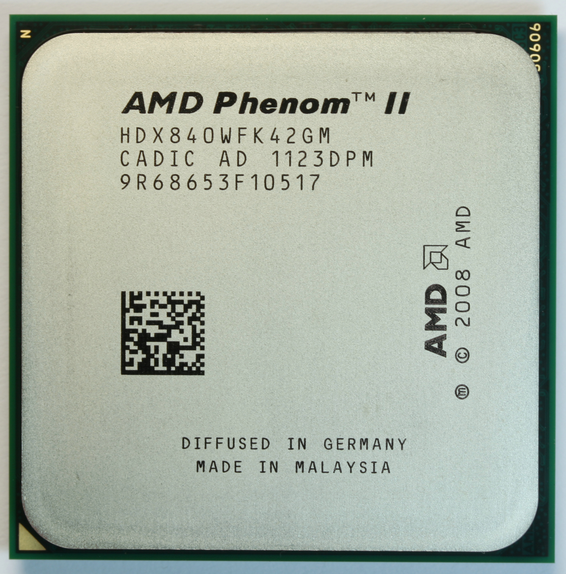 The top side of an AMD Phenom II X4 840 (HDX840WFK42GM) CPU